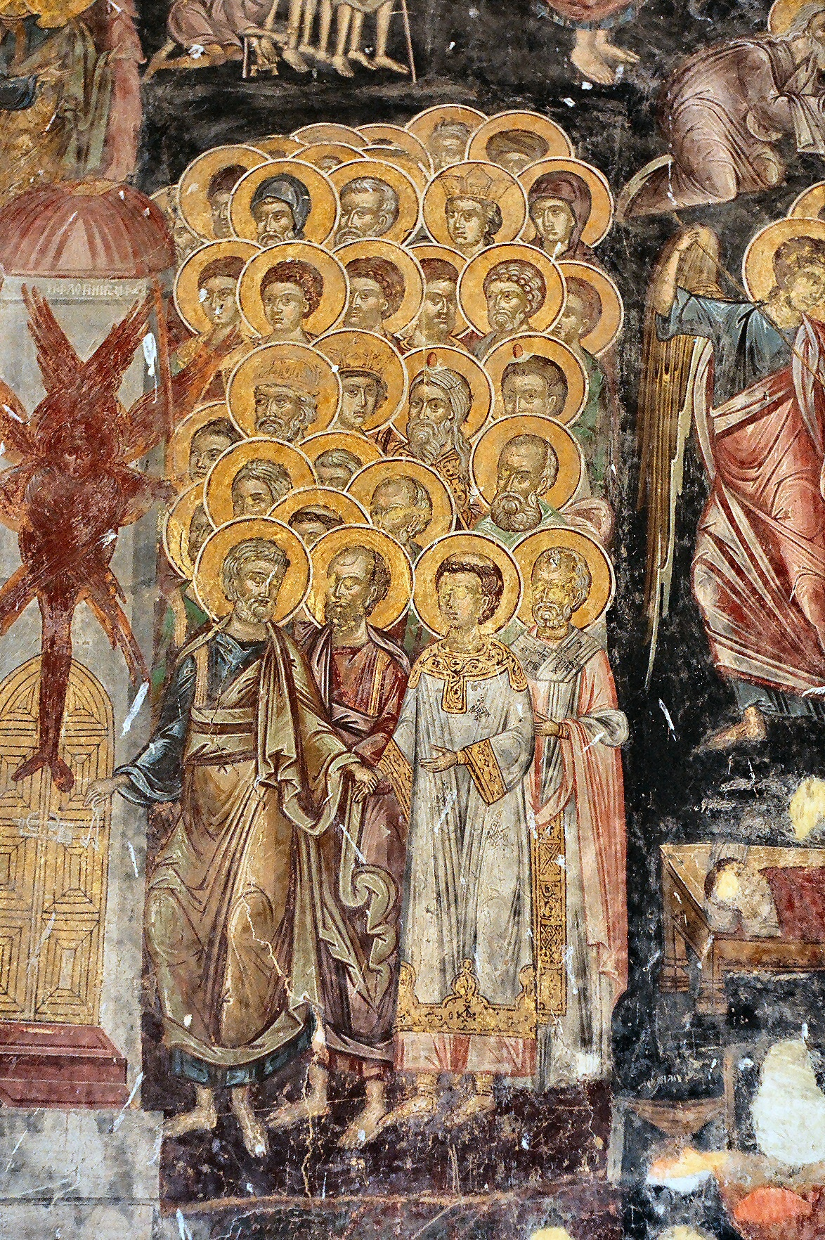 A fresco in the Rozhen Monastery (Роженски манастир)